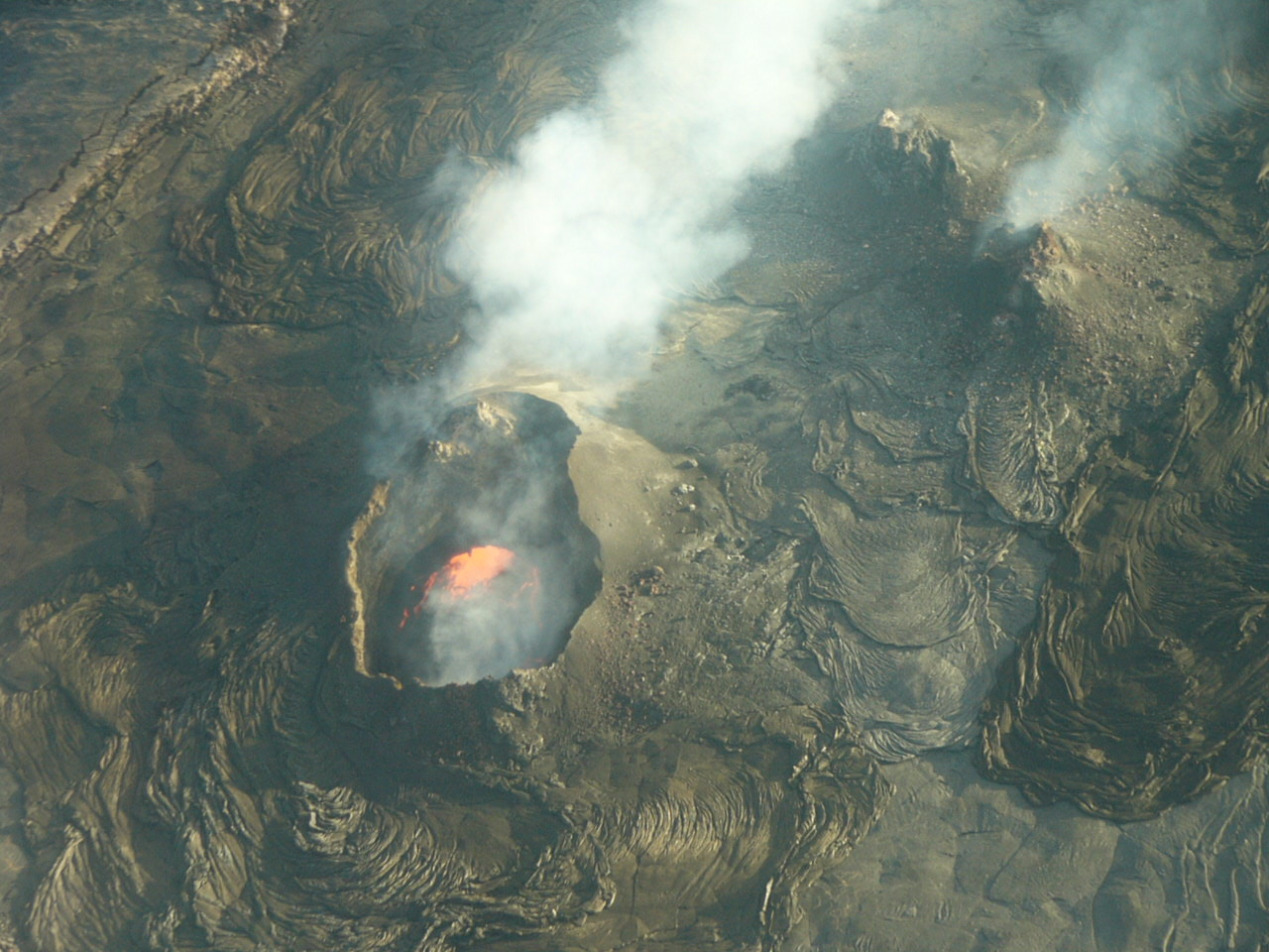 Another vacation picture December 2005. Because there's no active vent inside the caldera reported for 2005, this is most likely an aerial view of the Puʻu ʻŌʻō. --ThT 07:27, 5 June 2007 (UTC)